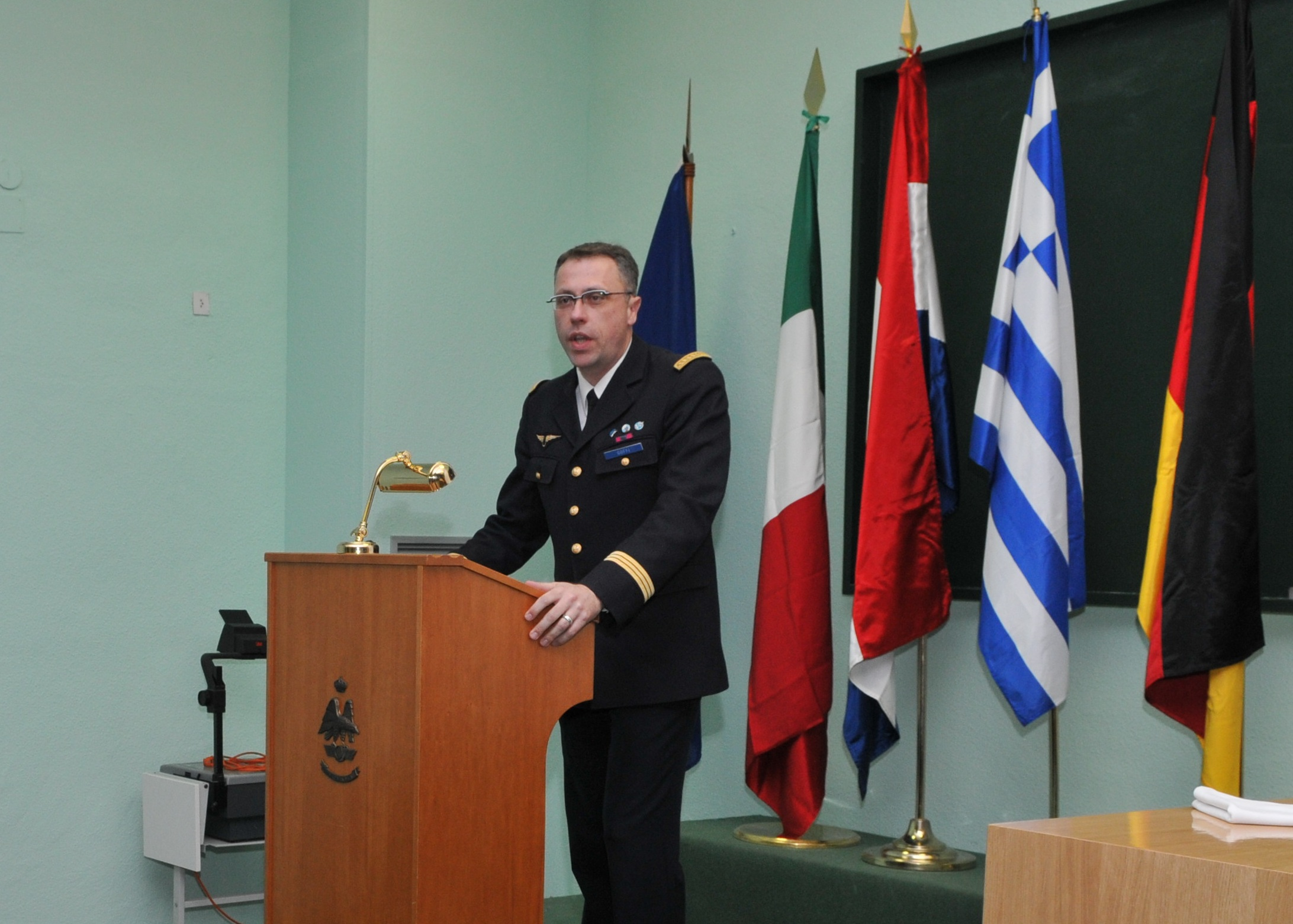 Emmanuel Goffi in Spain in 2010